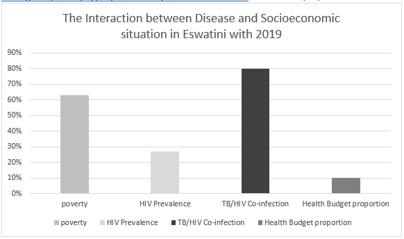 Major disease and poverty burden compared to Health funding